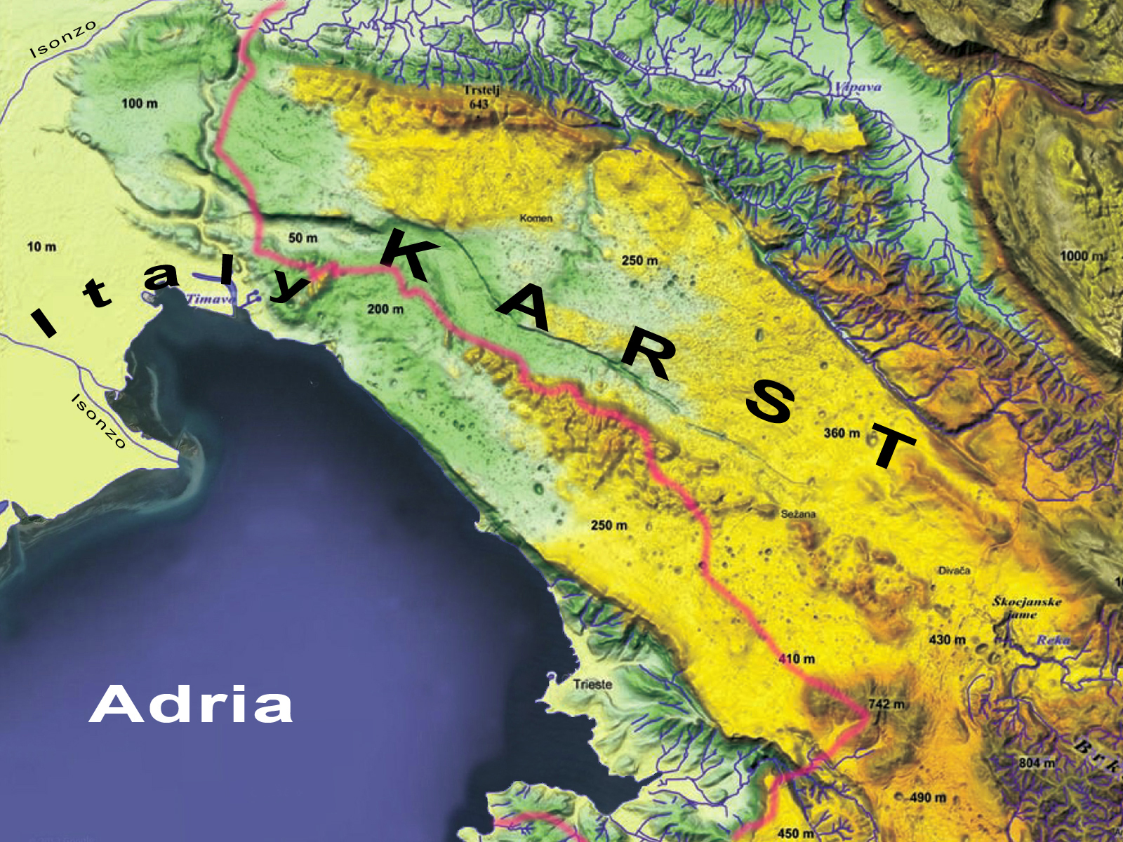 Geological map, type locality "Karst". The name of the mountain chain in Slovenia, by ca. 1900 became the internationally defined geological term karst. Typical of karst surfaces is the chemical solubility of limestone. Precipitation usually sinks underground. Data: Geodetska uprava Republike Slovenije.